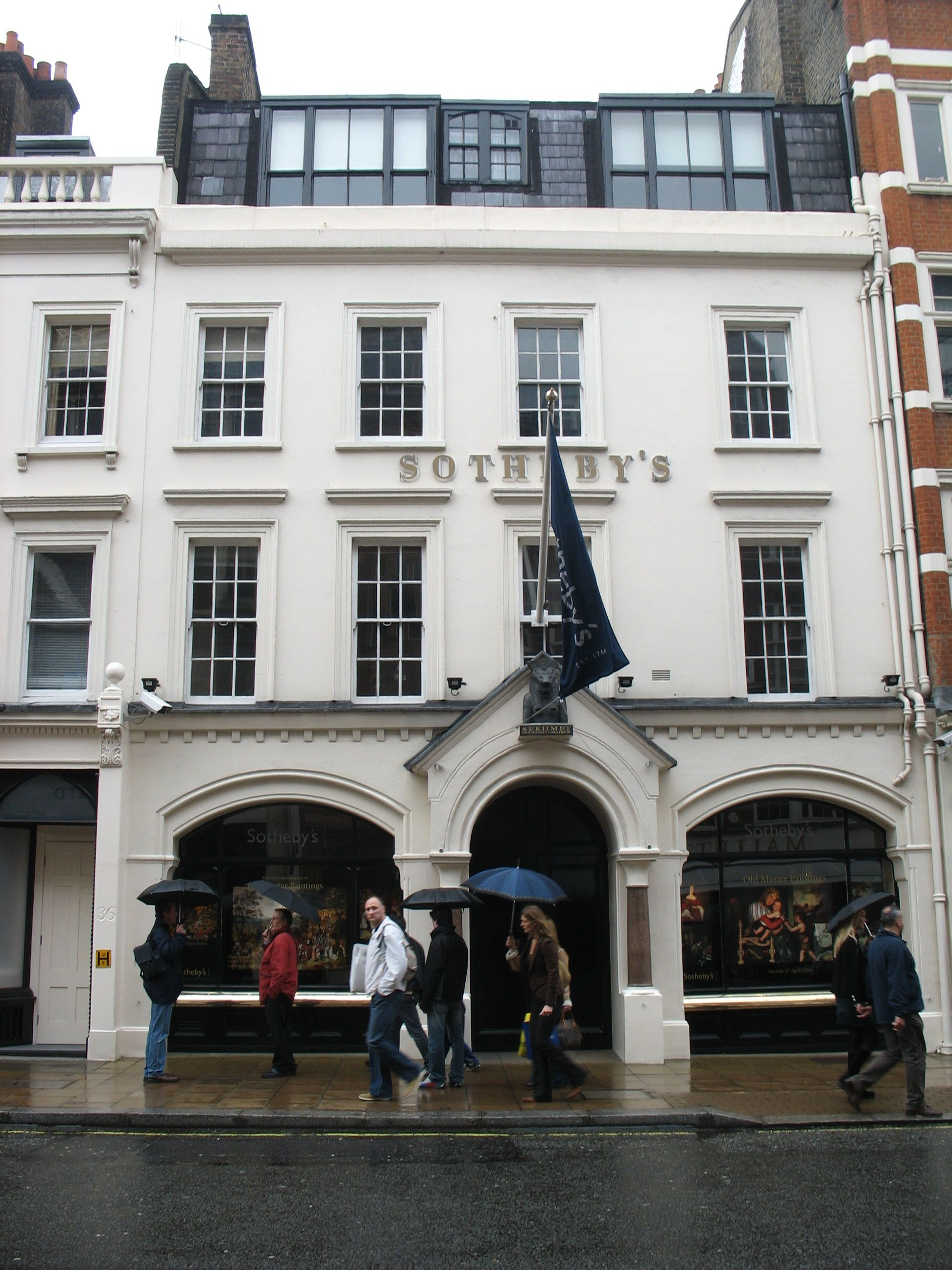 Sotheby's office in New Bond Street, London